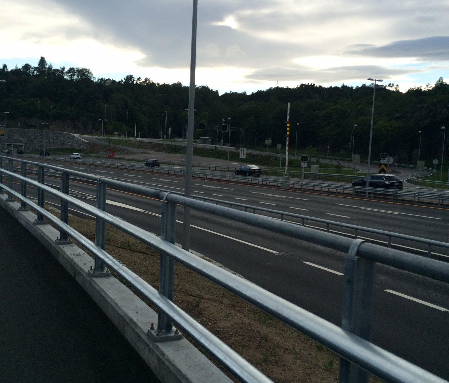 E39 Vesterveien in Kristiansand